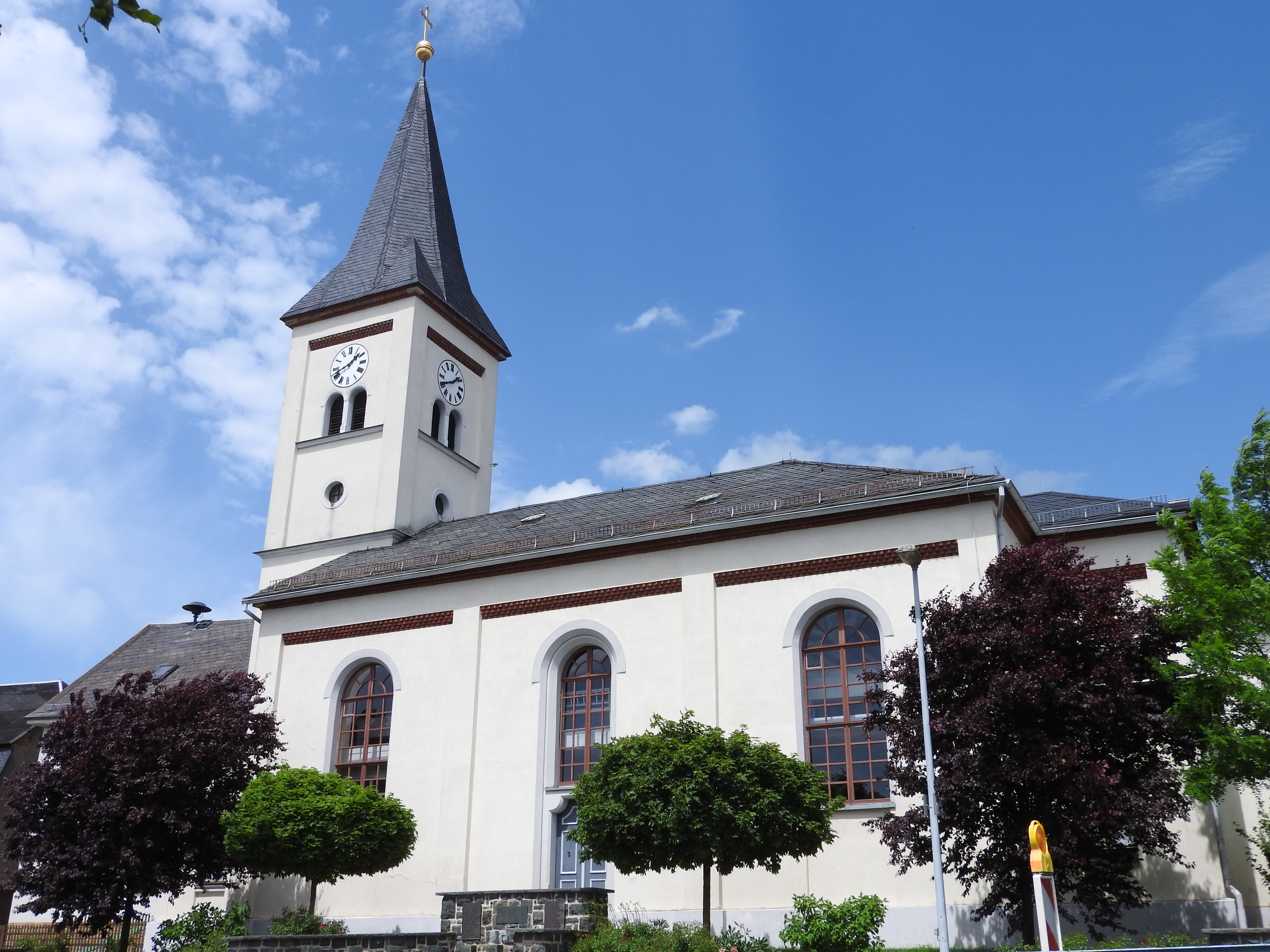 Kirche in Plothen, Thüringen